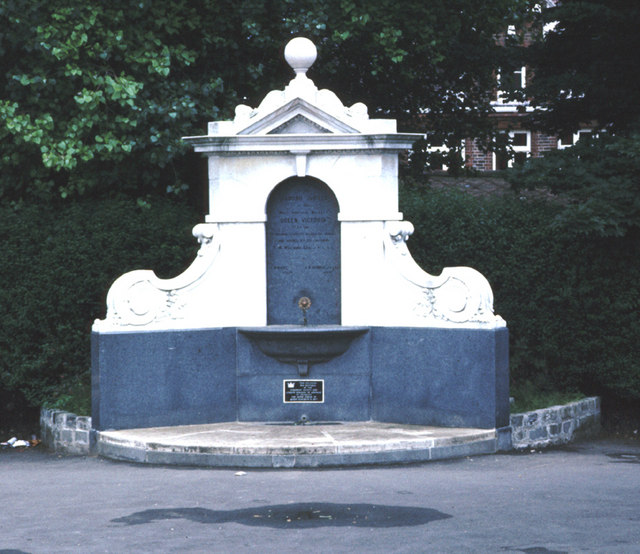 Memorial Drinking Fountain, Upper Sydenham. Drinking fountain erected to commemorate the 1897 Diamond Jubilee of Queen Victoria. Picture taken in August 1981 and scanned from old slide.